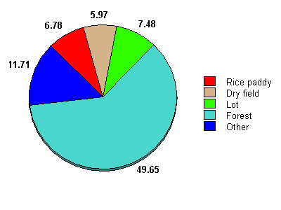 Uijeongbu Land Use Pie Chart